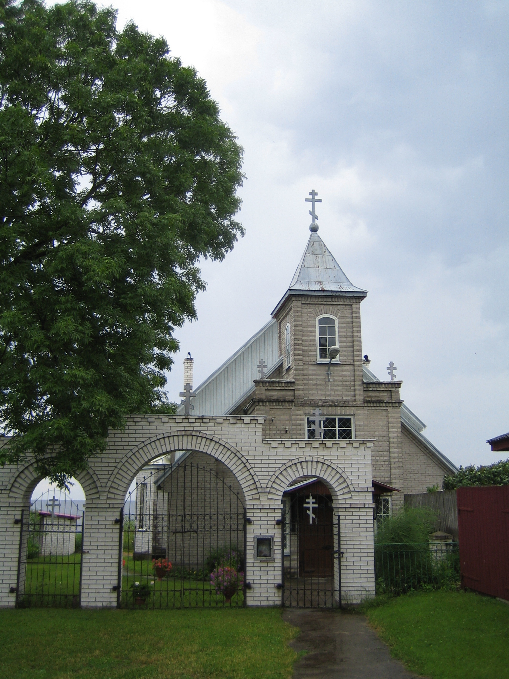 Kükita (Kikita) Old Believers' Church, Kasepää Parish, EstoniaEesti: Kükita vanausuliste kirik